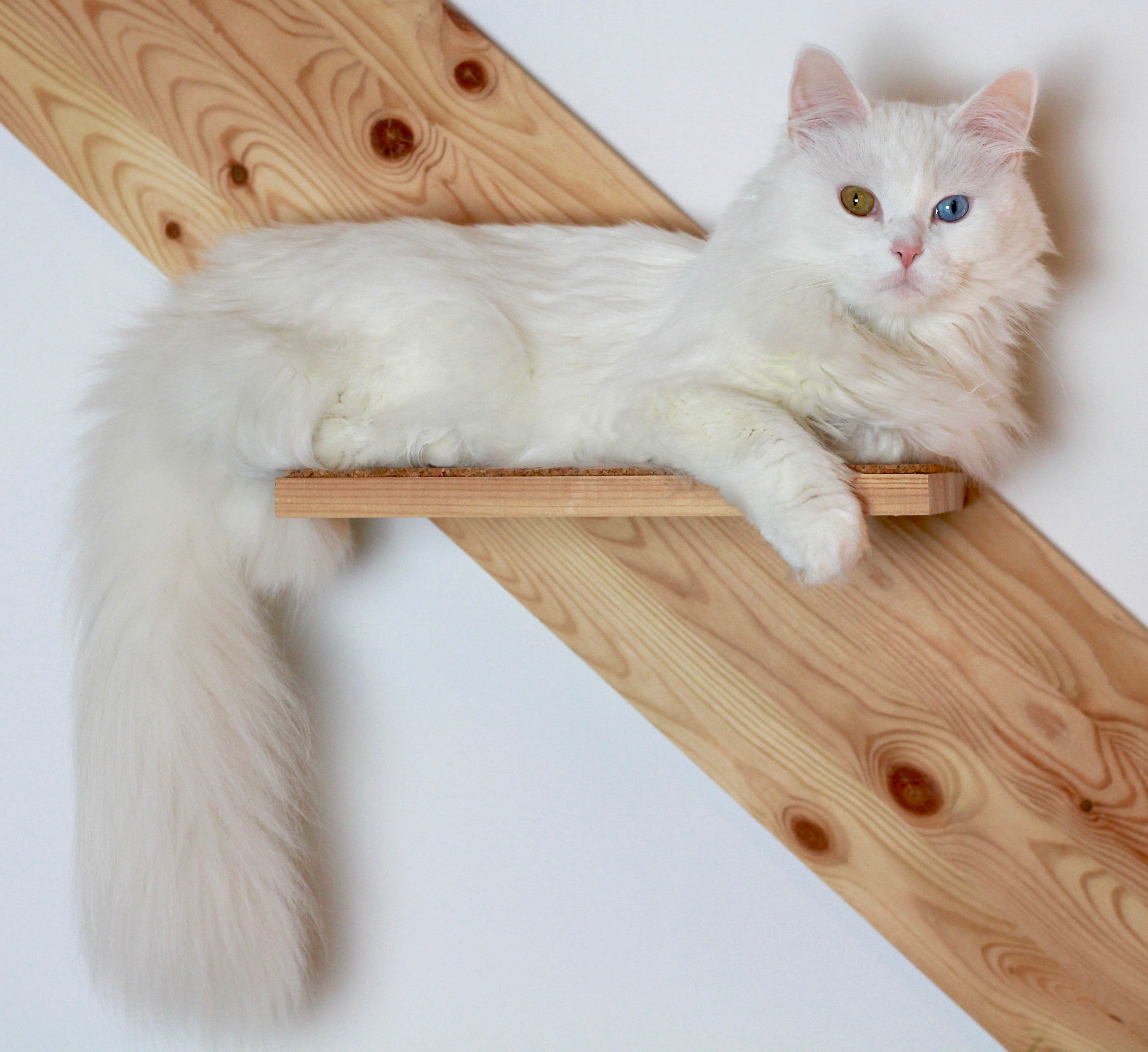 The picture shows a white Turkish Angora cat, odd-eyed